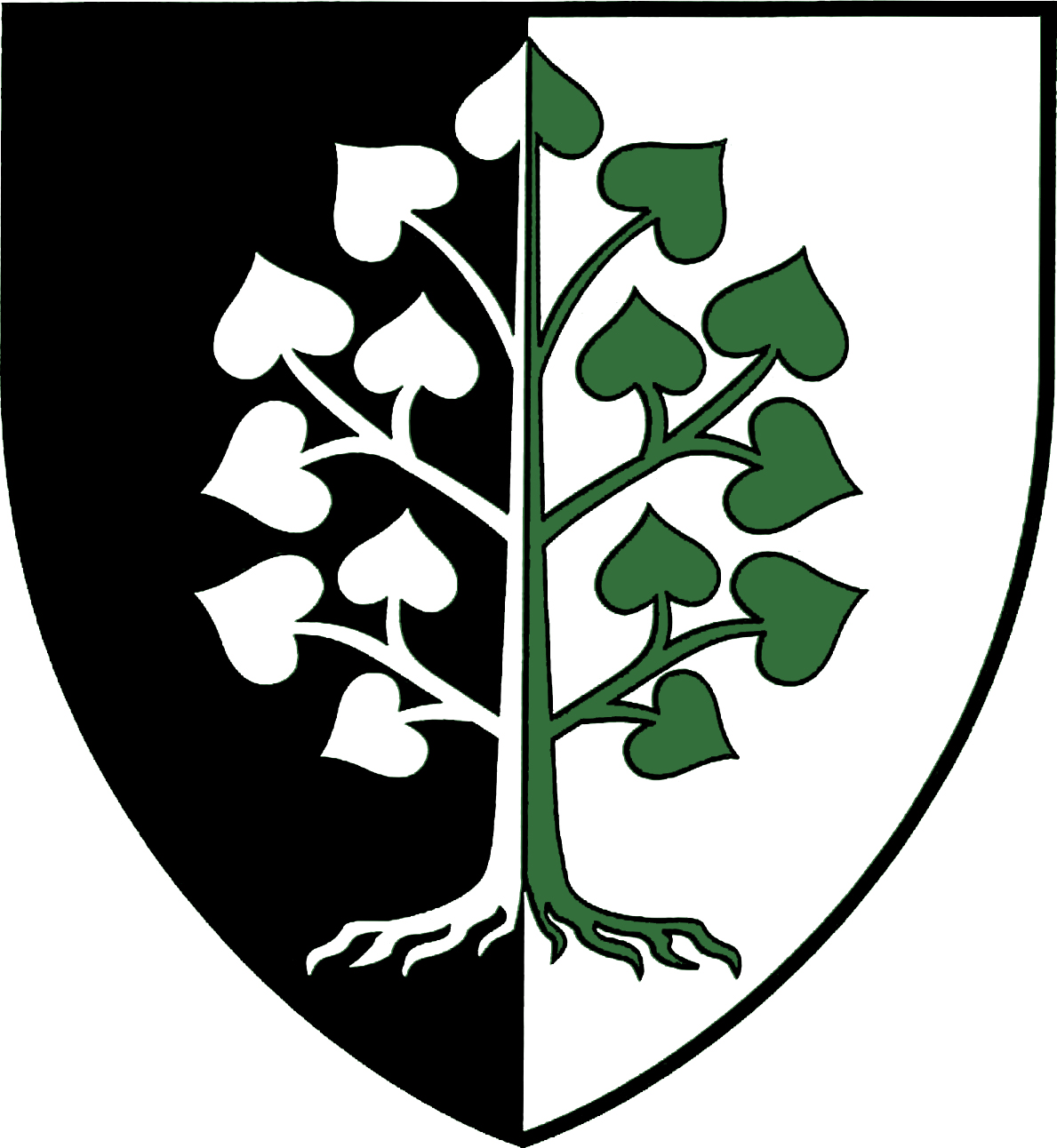 Coats of arms of Ladendorf